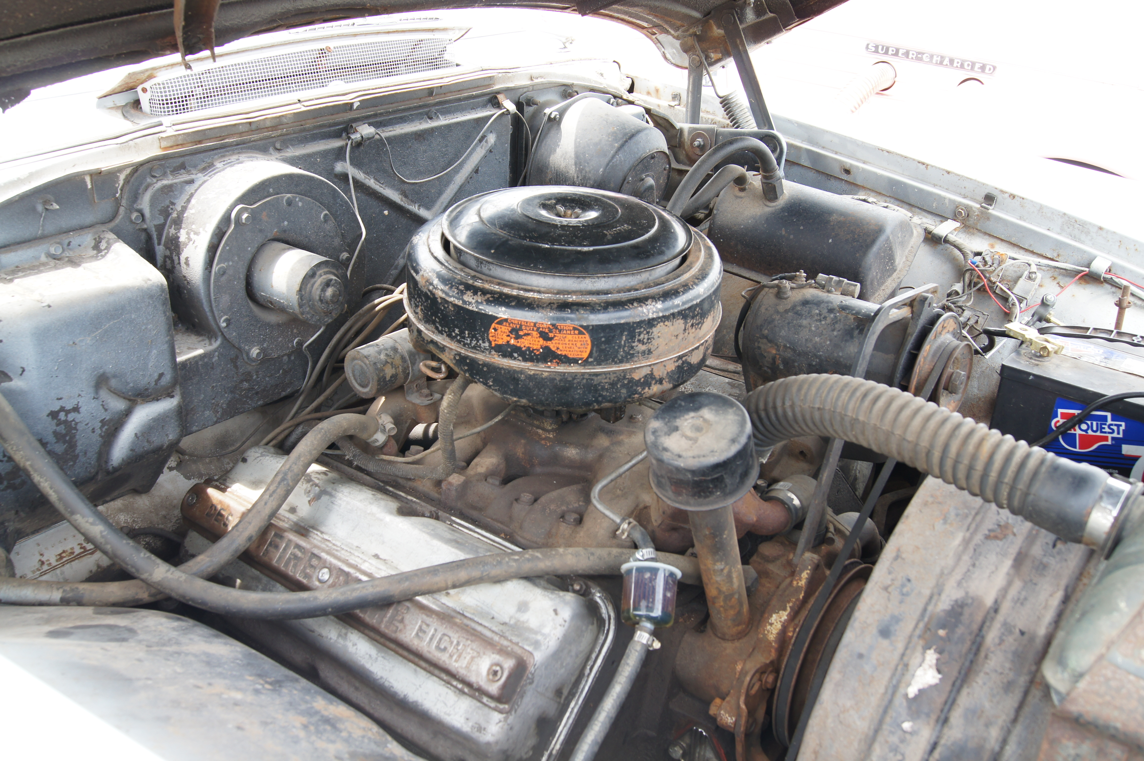 MSRA “BACK TO THE 50′s” 40th ANNIVERSARY June 21-23, 2013 State Fairgrounds St. Paul Minnesota More Car Pictures